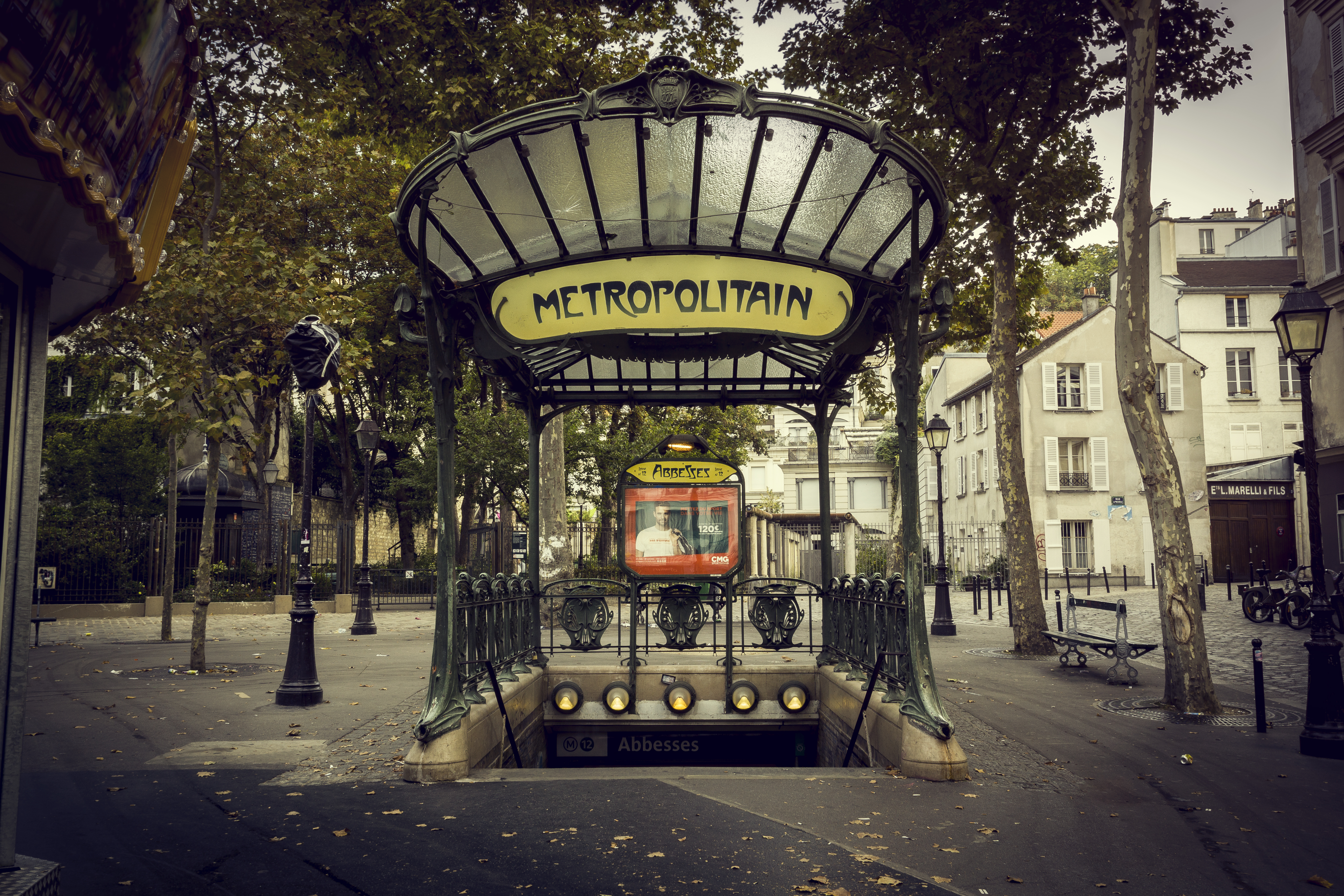 Aedicula, Hector Guimard, Abbesses (Paris Métro)